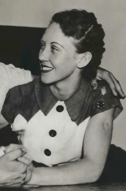 1936 Press Photo Marie kihler and Chet Phillips, Gymnastics - cvb46864